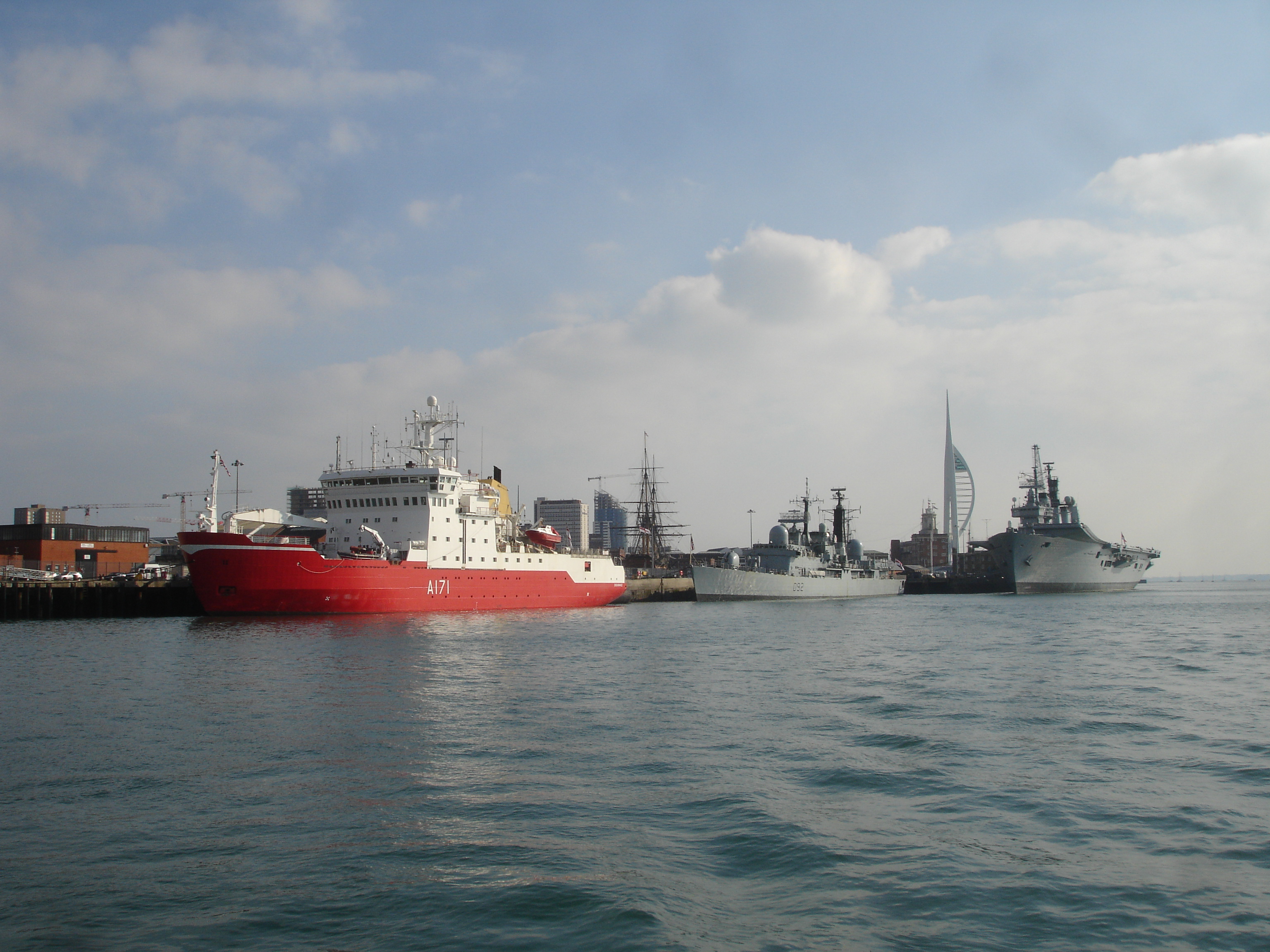 HMS Endurance (A171) in Portsmouth with HMS Ark Royal (R07) and the Type 42 destroyer HMS Liverpool (D92)